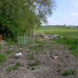 Public footpath at Billington, Bedfordshire